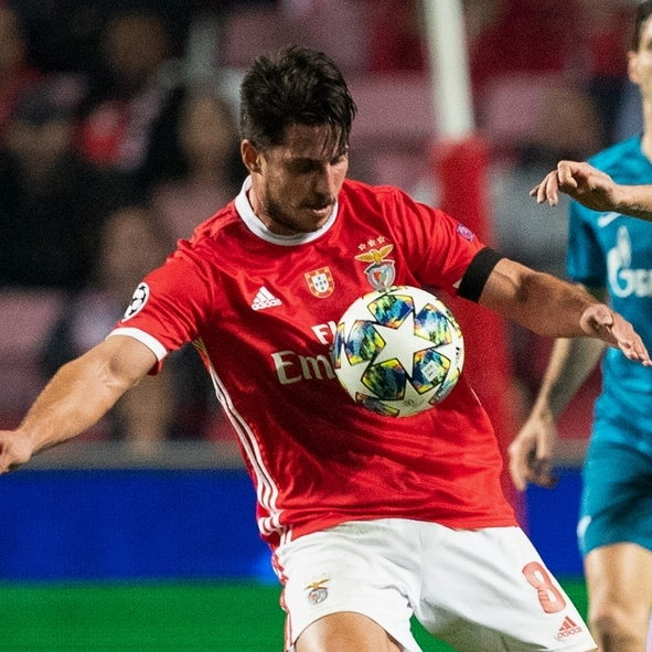 Benfica-Zenit UEFA Champions League 2019/20 (10/12/2019)